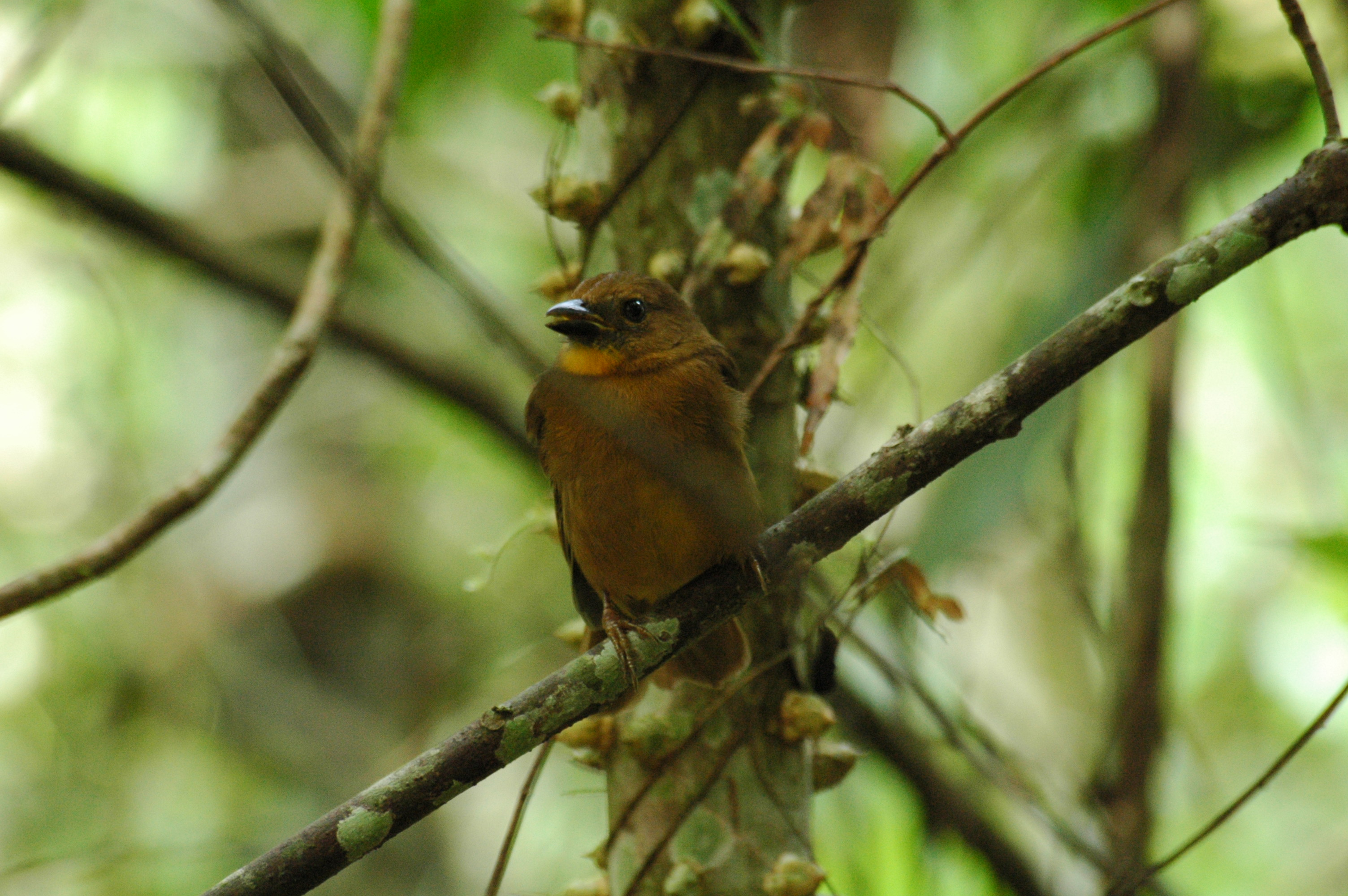 Red-throated Ant-tanager (Habia fuscicauda) spotted in Blue Hole National Park, Belize.